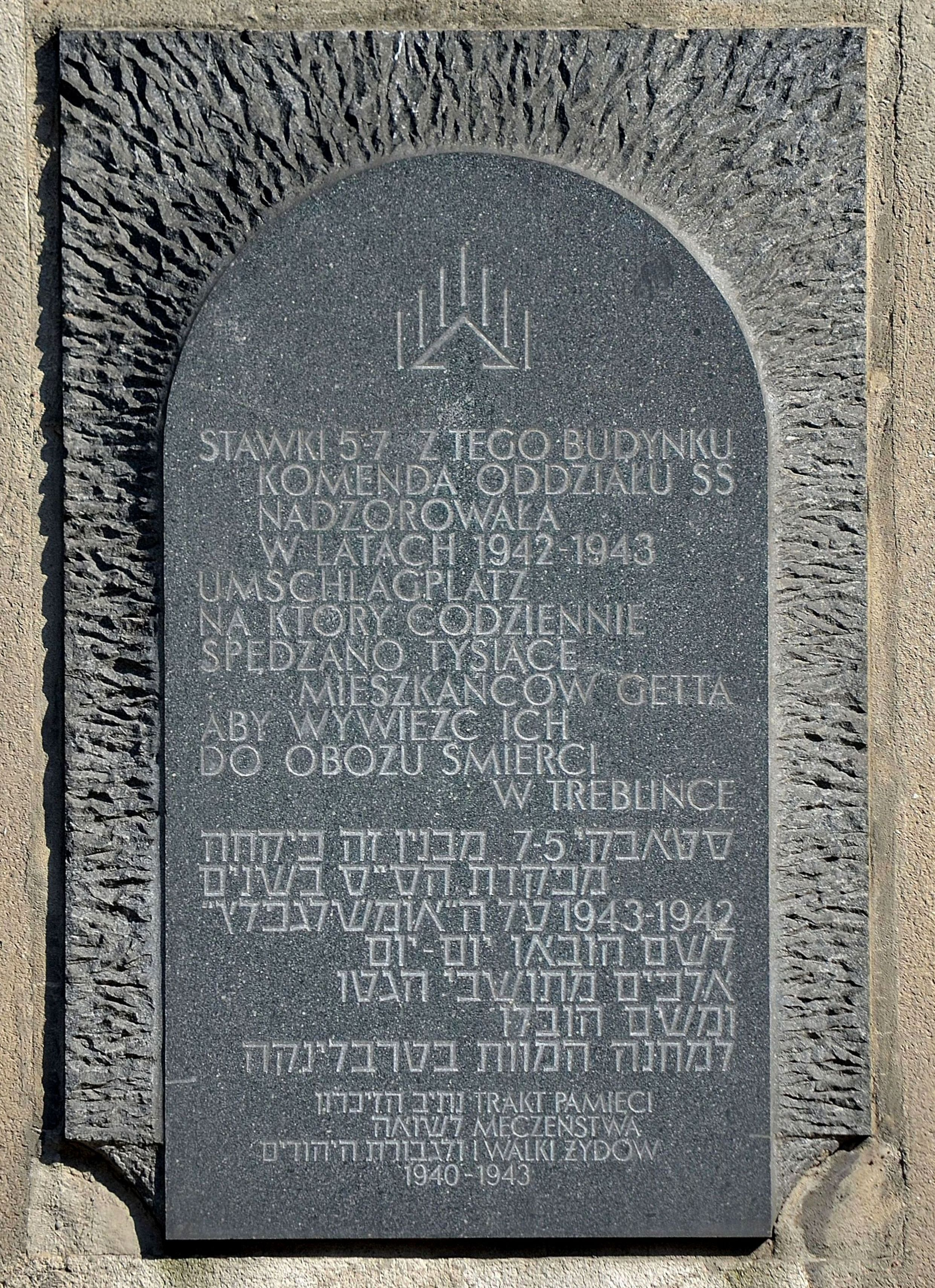 Commemorative plaque at 5/7 Stawki Street in Warsaw